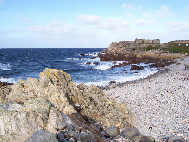 Fort Le Marchant. Looking across the little bay and rifle range to the fort. In Napoleonic times this was one of the principal defences of the island, and a large barracks was also part of the complex - though now demolished.